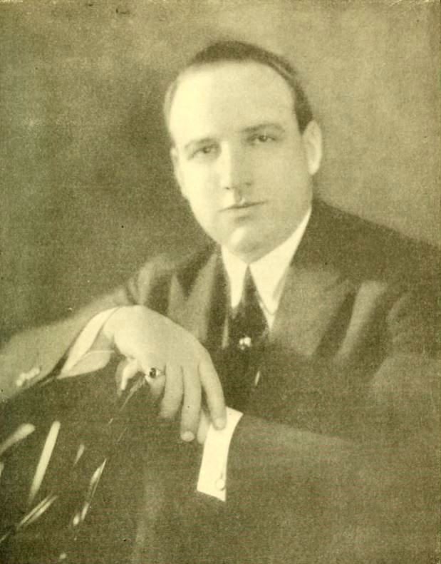 Director Allan Dwan on page 47 of the June 1921 Photoplay magazine.